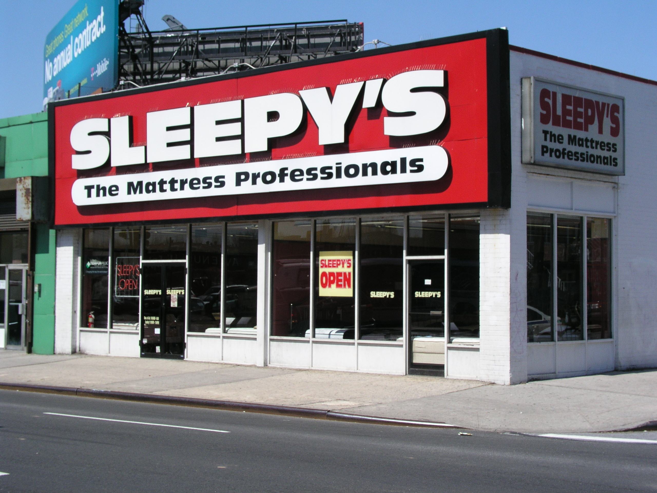 Sleepy's store in Kings Plaza, Brooklyn, NY on Avenue U opened in 1975.